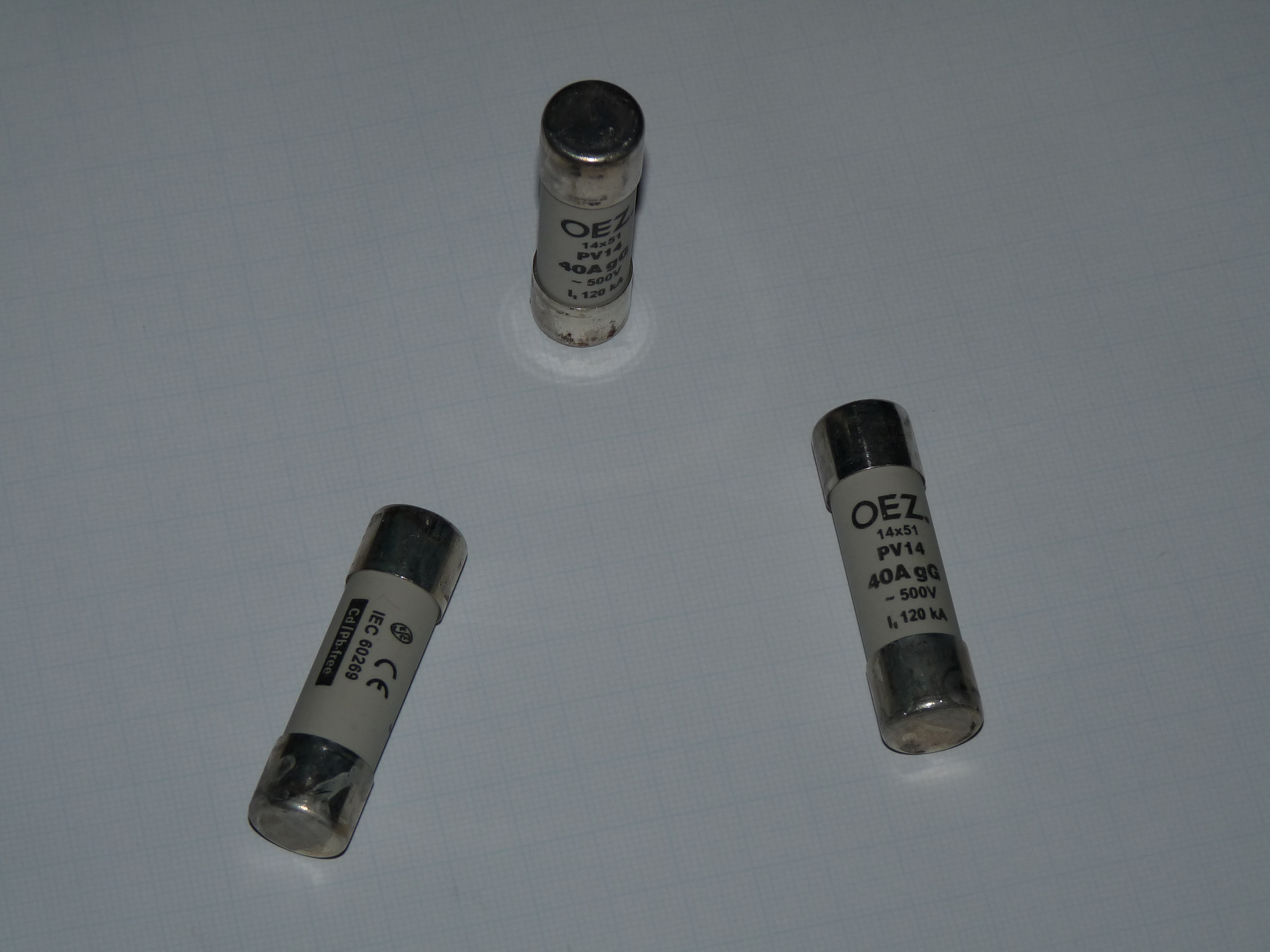 Melting fuses 40A with "gG" characteristics.